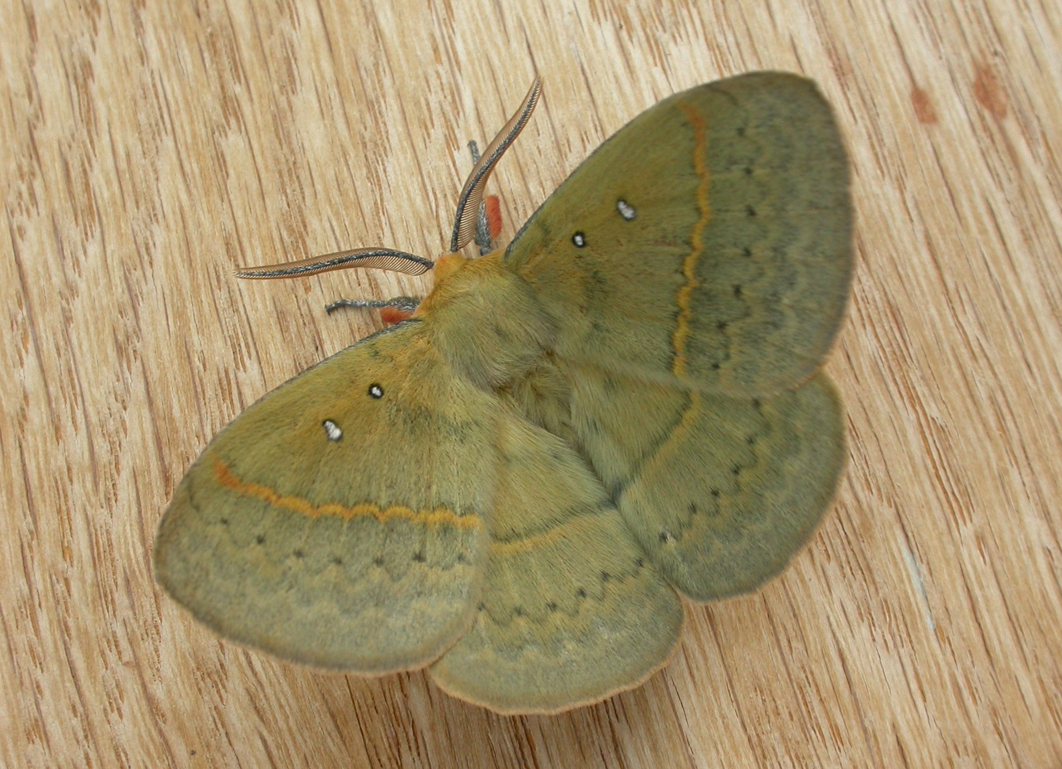 Anthela nicothoe (Boisduval, 1832), female, to MV light, Blackheath, NSW, 22/23 January 2011